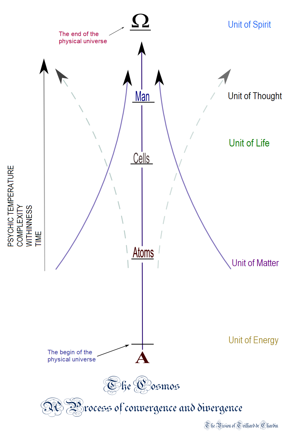 Entropy, Thermodynamics and Divergence, How is it possible to understand Singularity or how the the whole universe is structured under the second law of thermodynamics? Teilhard de Chardin had a vision and many explanations about it, his work is worth of further investigation